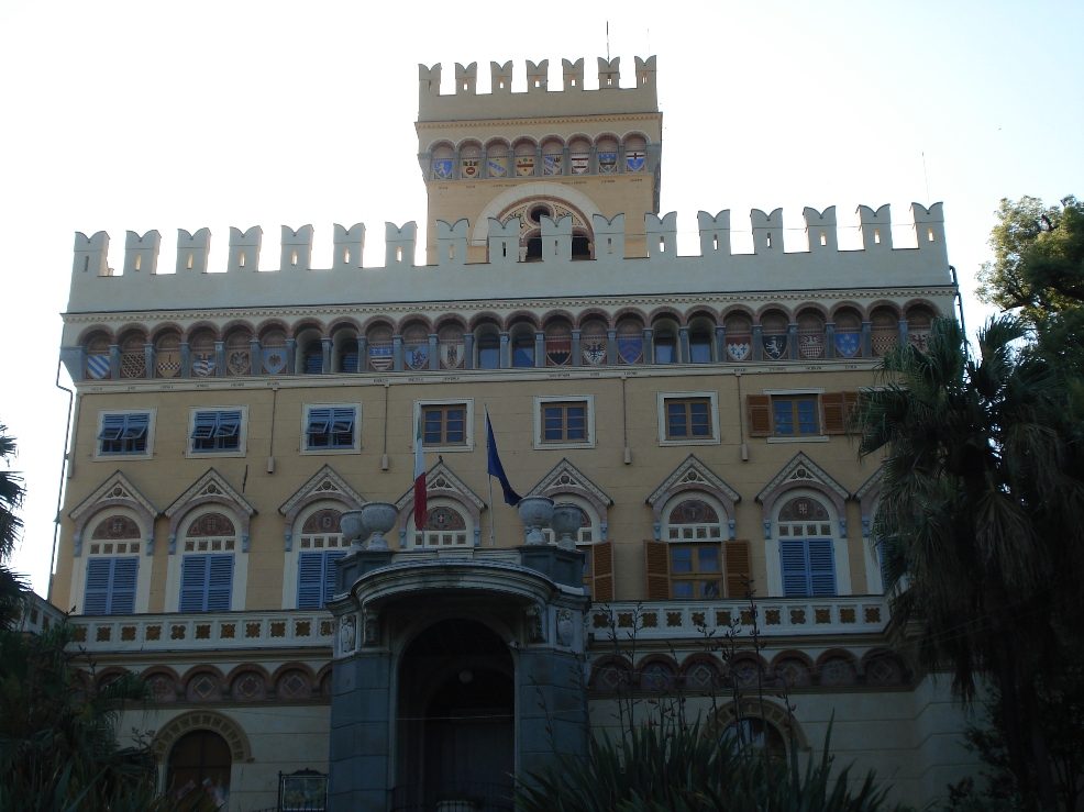 Villa Negrotto Cambiaso in Arenzano